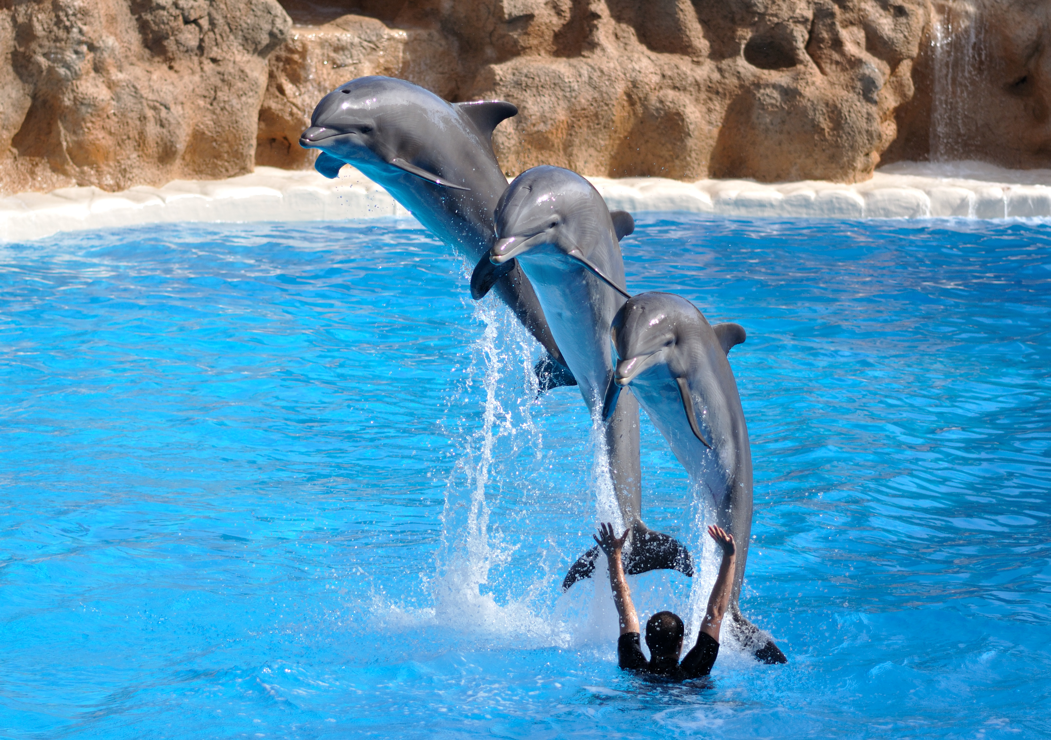 Three Bottlenose Dolphins (Tursiops truncatus) perform a stunt in the Loro Parque Dolphin Show, Puerto de la Cruz, Tenerife, Spain.